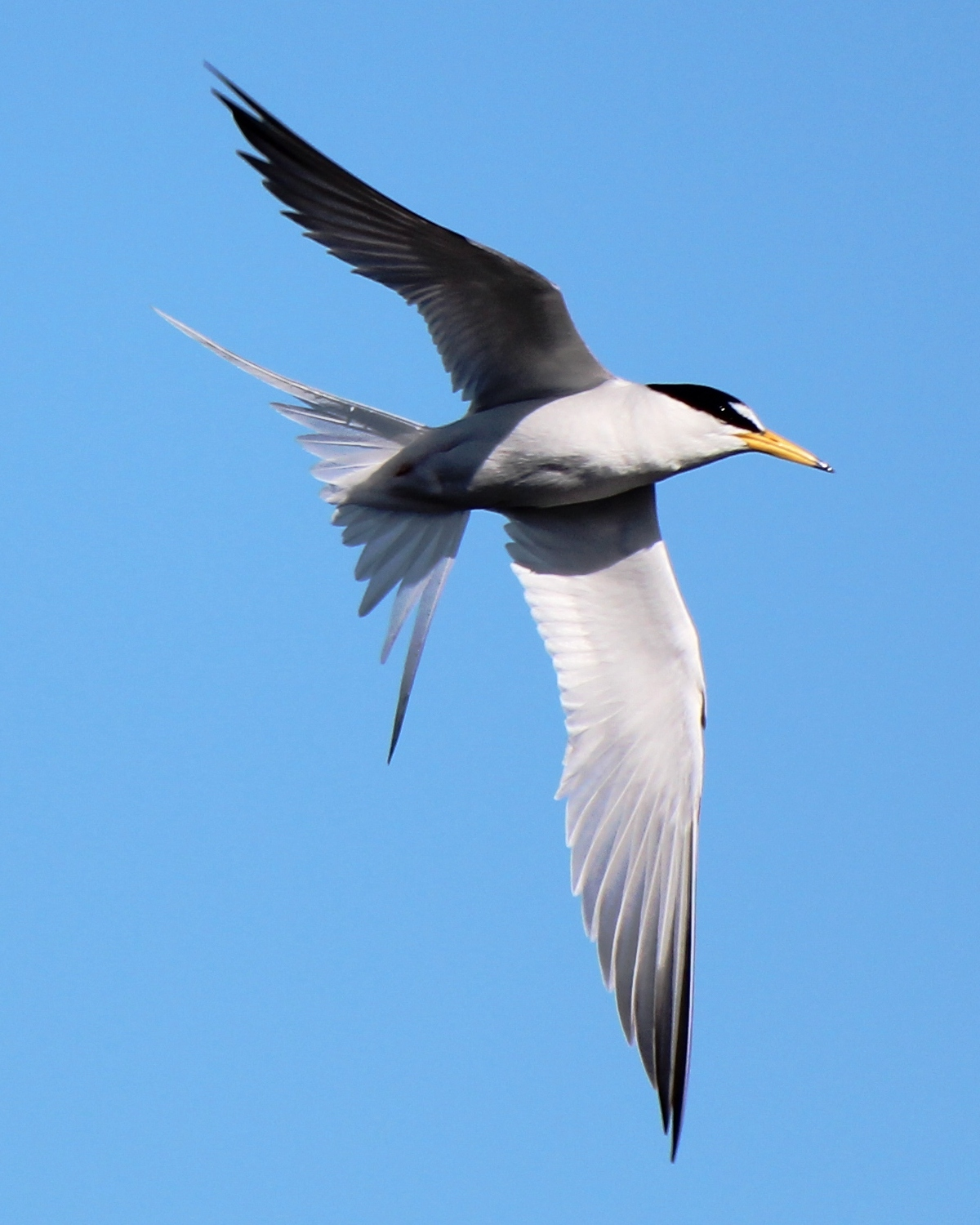 Sterna albifrons sinensis (Little Tern) in flight in Kisosaki, Mie, Japan